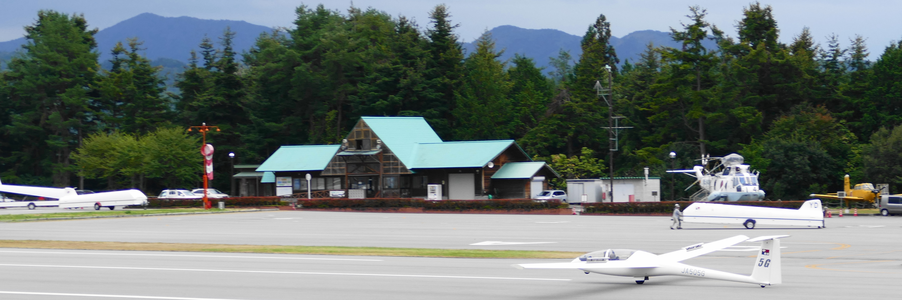 Hida Air Park,Gifu prefecture,Japan